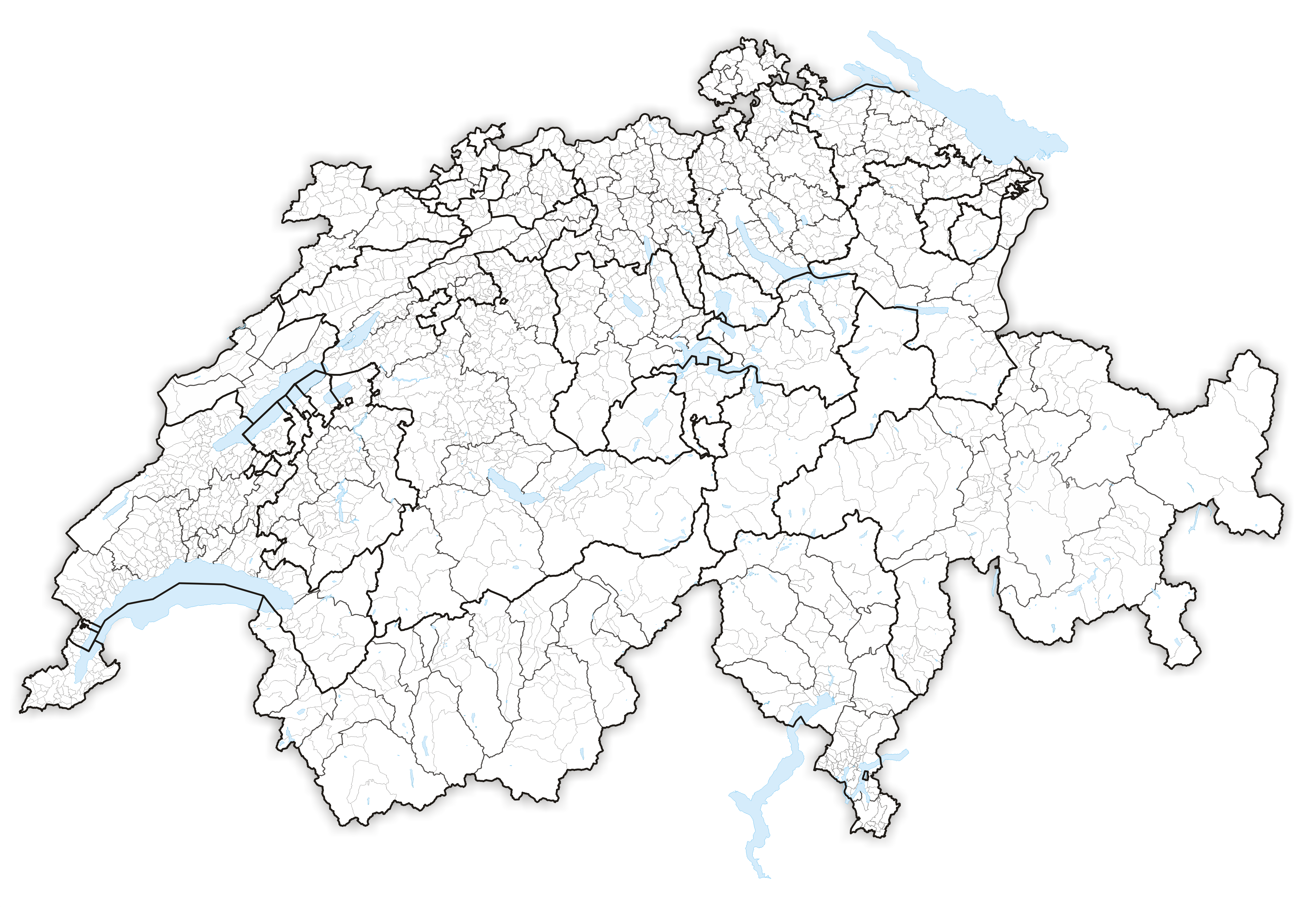 Municipalities in Switzerland